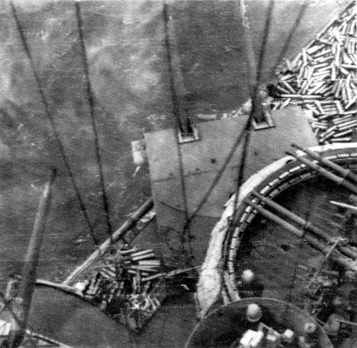 A view looking down USS Nevada (BB-36) at a 5in/38cal gun and quad 40mm Bofors mount. At Normandy, 6 June 1944. The main deck is literally covered with spent shell casings as she serves as a support gunfire ship.